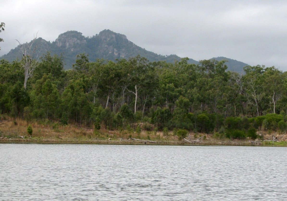 Mt Castletower as seen from Lake Awoonga, Central Queensland, Australia